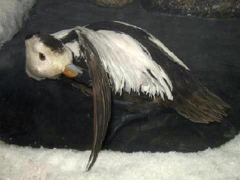 Description: Labrador Duck - Source: own work - Location: American Museum of Natural History, New York - Author: self, User:Stavenn